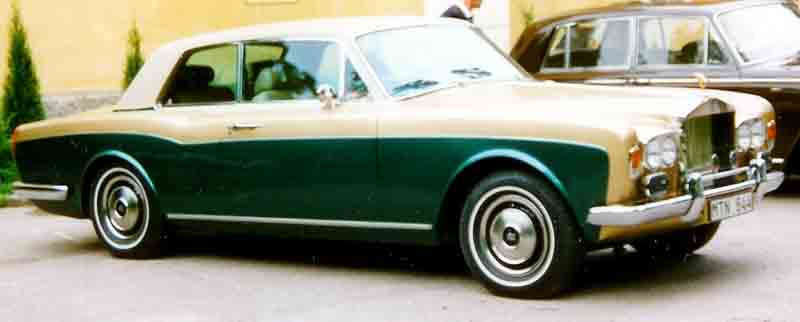 Rolls-Royce Corniche 1977